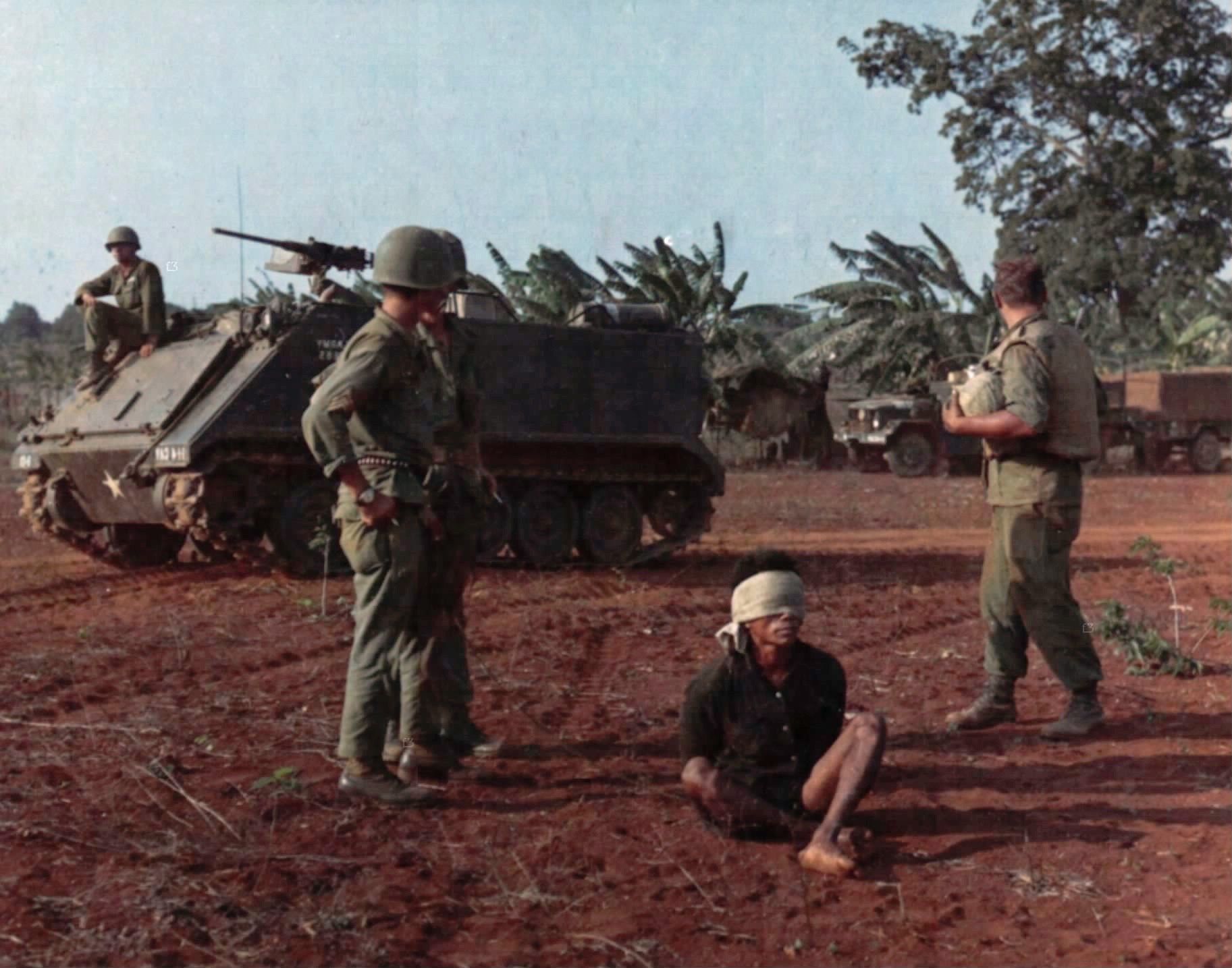 SEARCH AND DESTROY MISSION NEAR CUI CHI, RVN. Operation Albilene, a search and destroy mission against the Viet Cong by elements of the 2nd Brigade, 1st Infantry Division. The operation began 50 km SE of Saigon and extended approx 71 km NE of Saigon, near the village of Binh Ga, RVN. Personnel guard a VC prisoner captured during the operation.